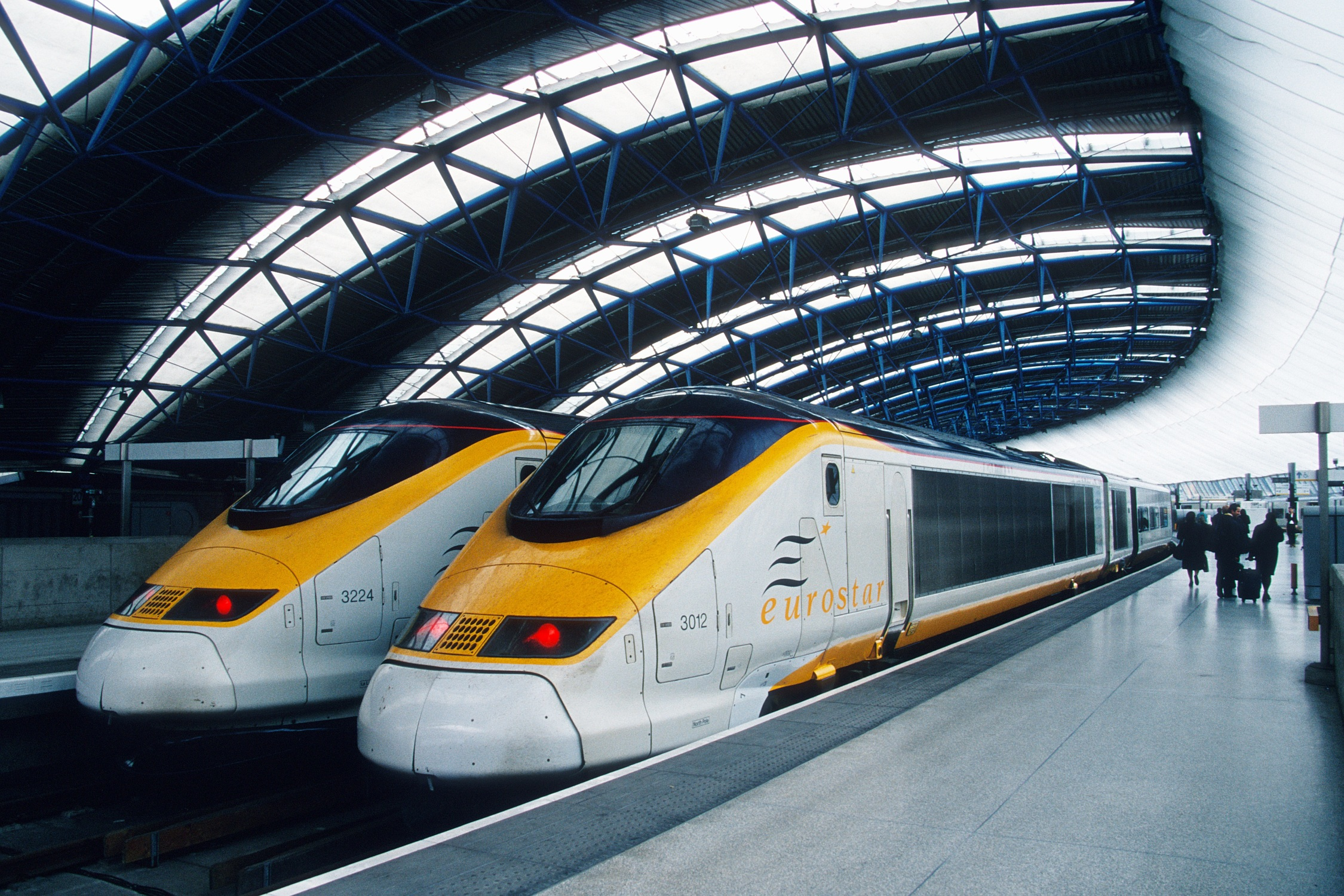 Two class 373 Eurostar units under the roof of Waterloo international station in London.